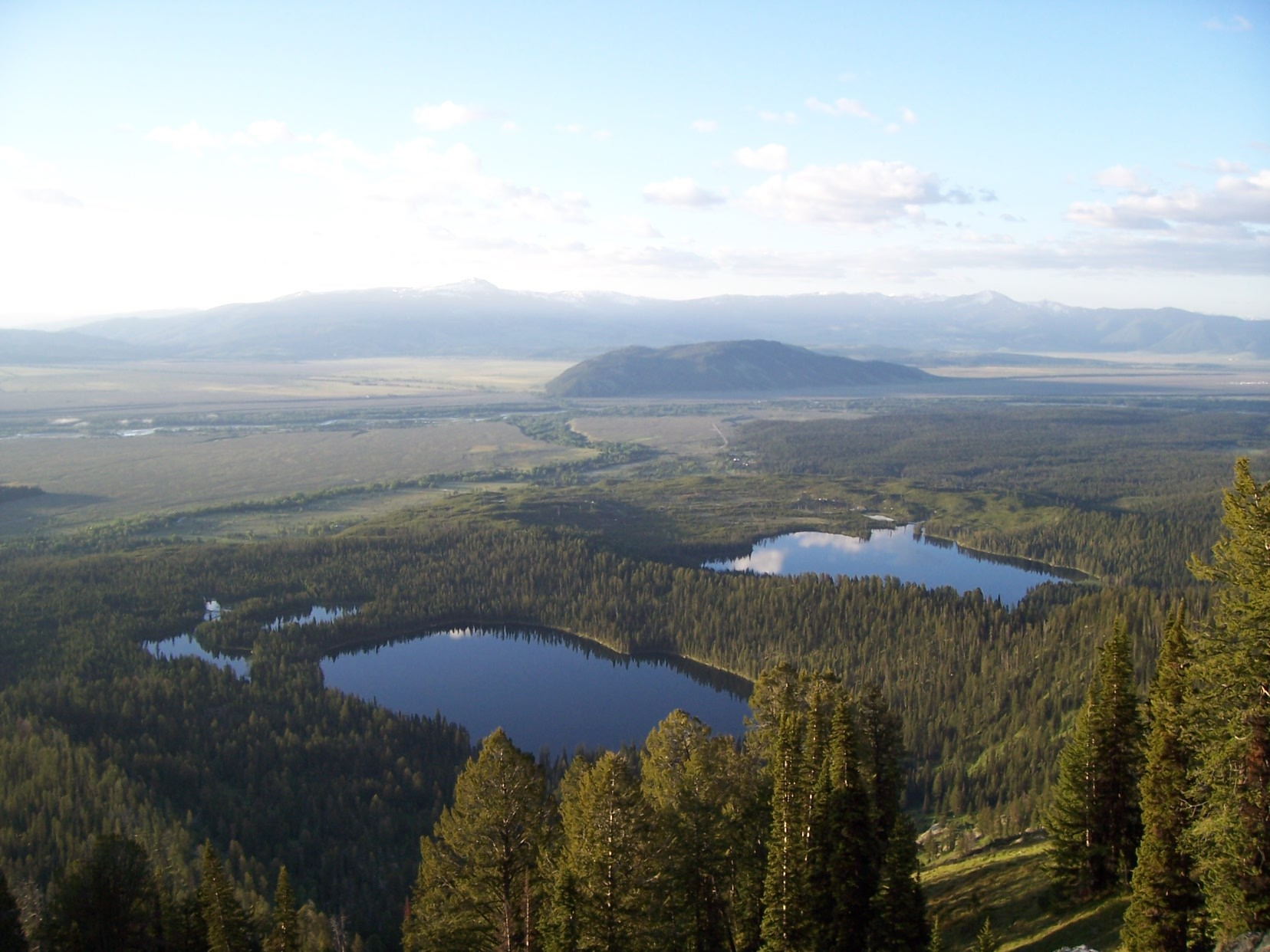 Bradley Lake at left and Taggart Lake right in Grand Teton National Park